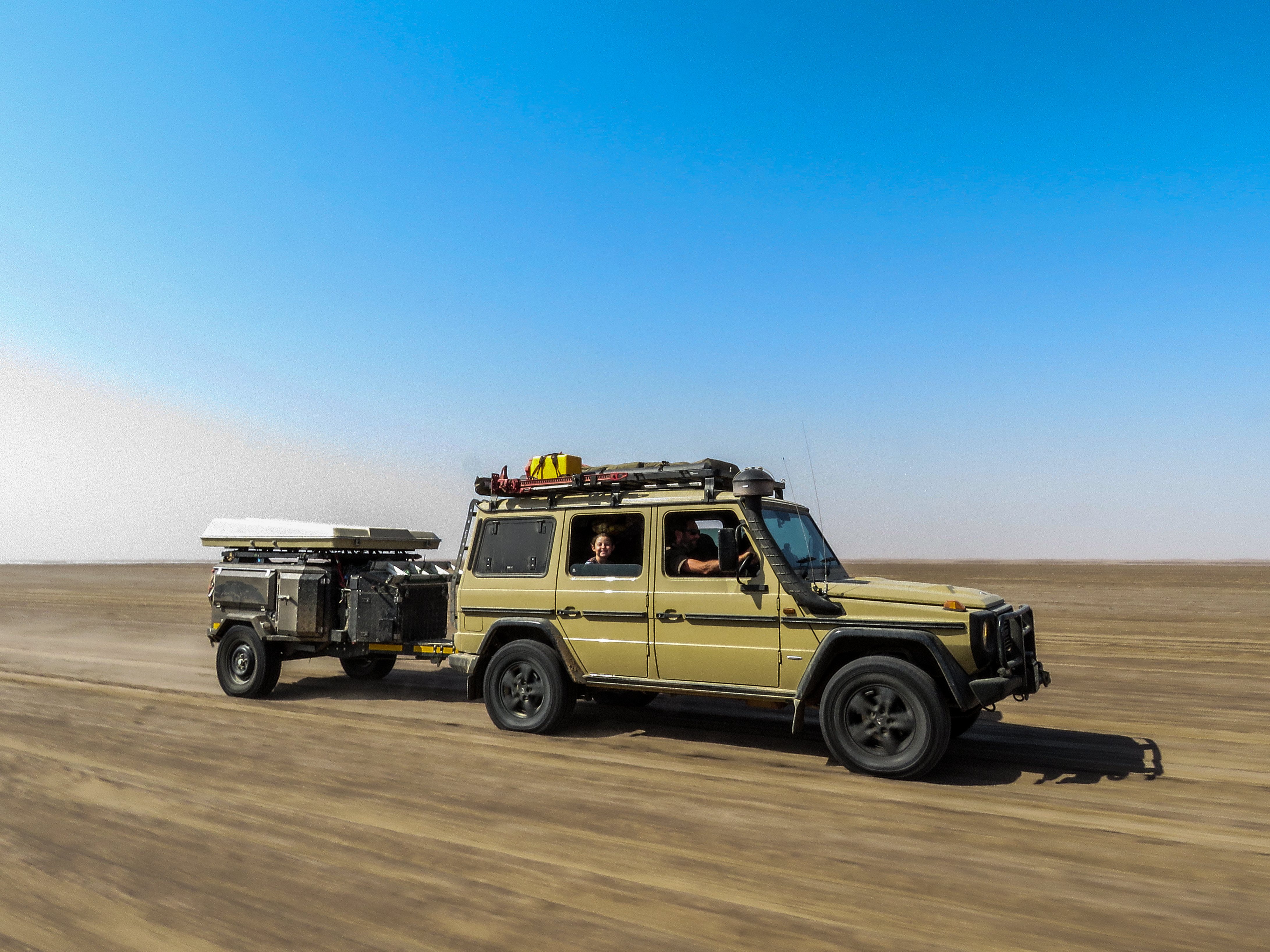 Bakkies the national park in Angola This is an image with the theme "Africa on the Move or Transport" from: Angola